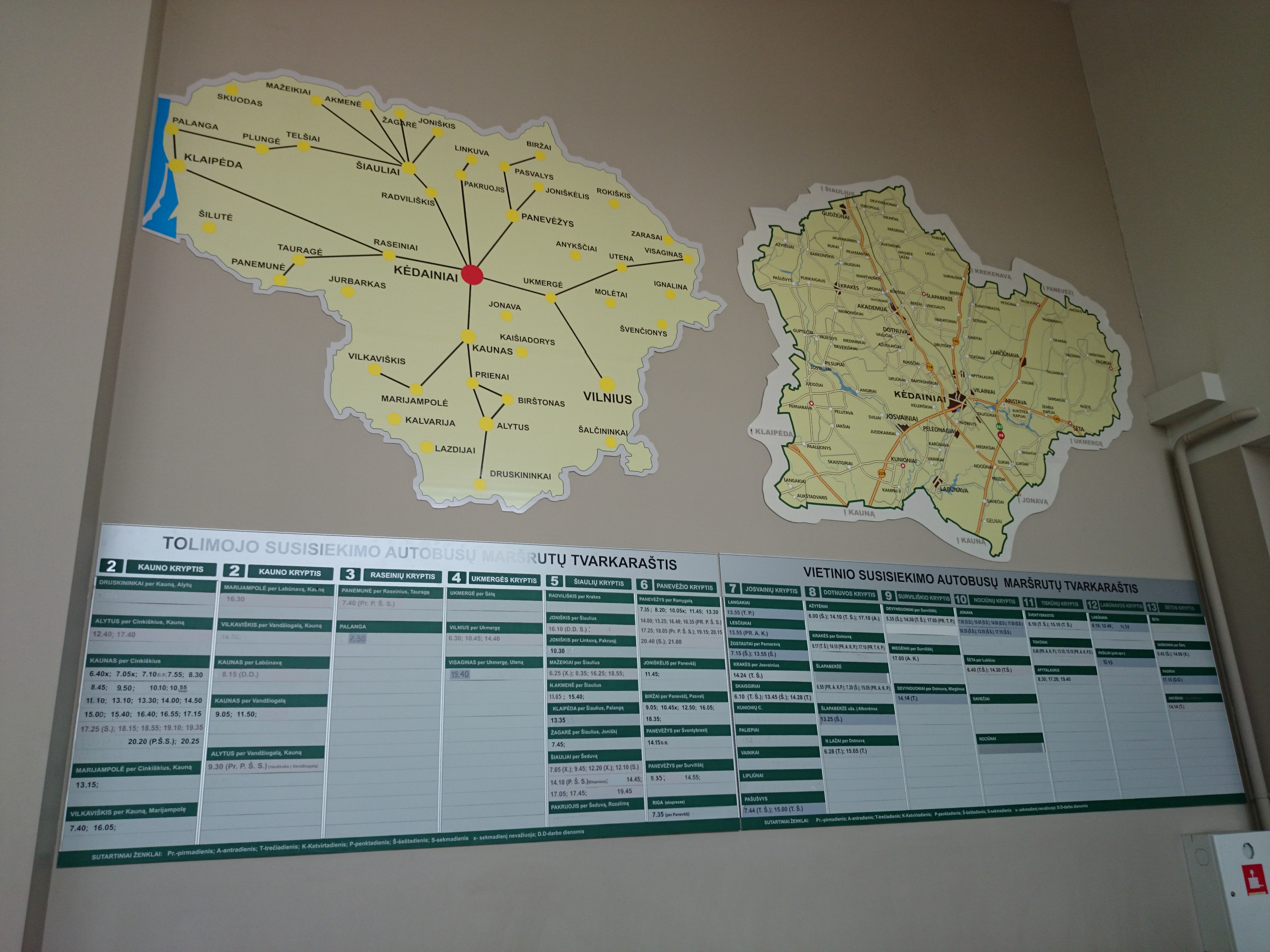 Bus station in Kėdainiai